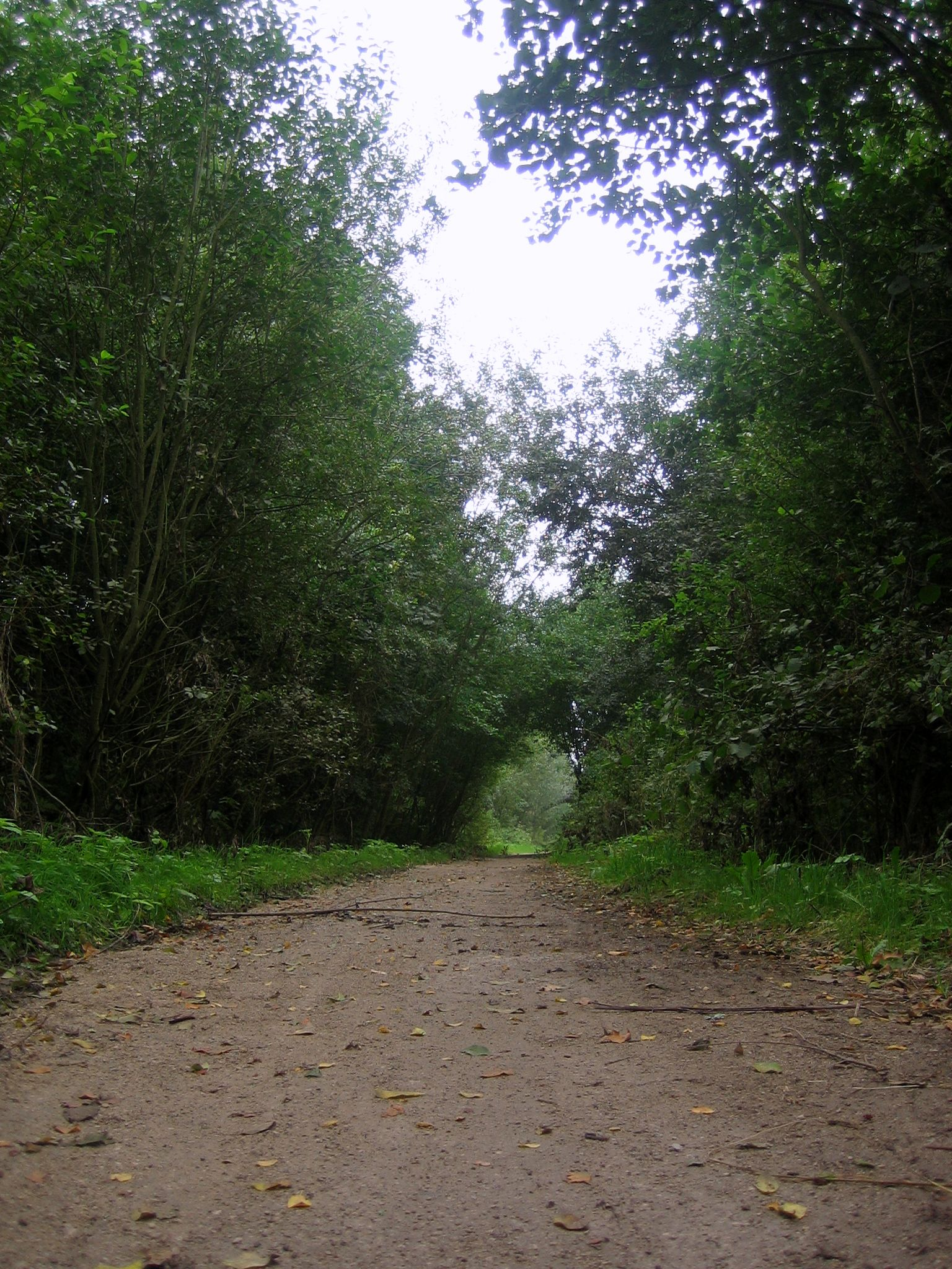 The Middlewood Way